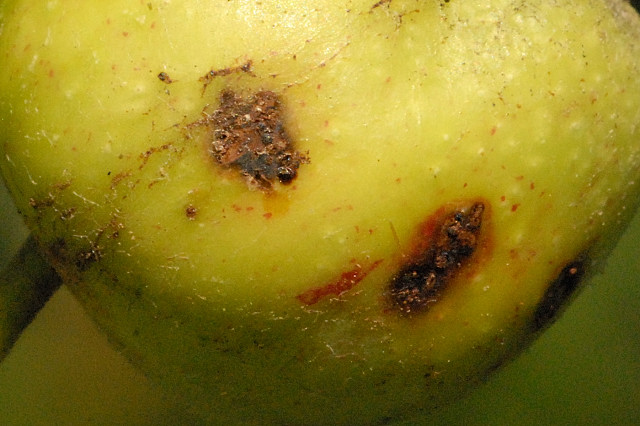 Venturia inaequalis from Commanster, Belgium. The determination of the species shown in this picture has been verified.